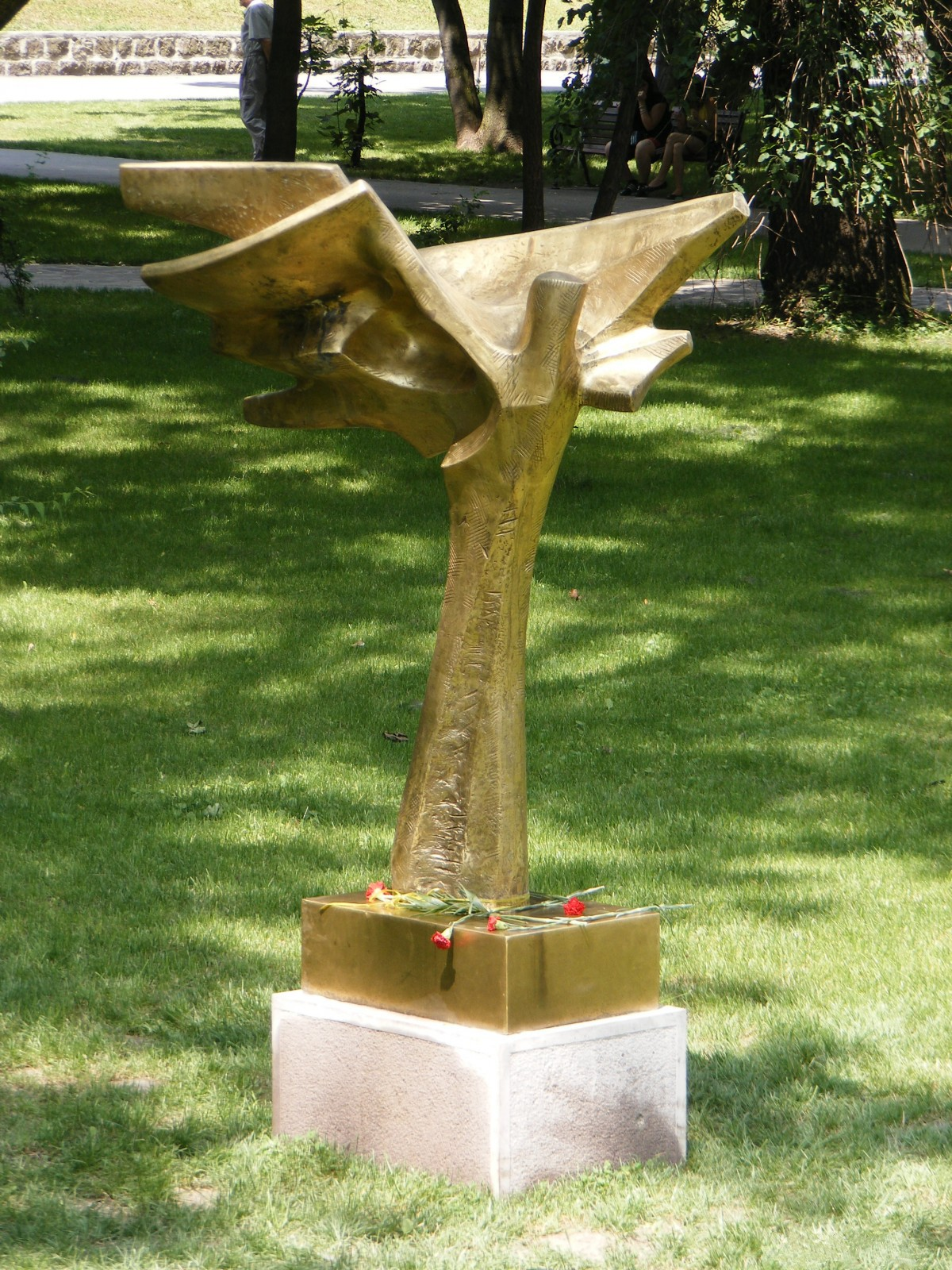 Nike II. statue, Sfântu Gheorghe, Romania